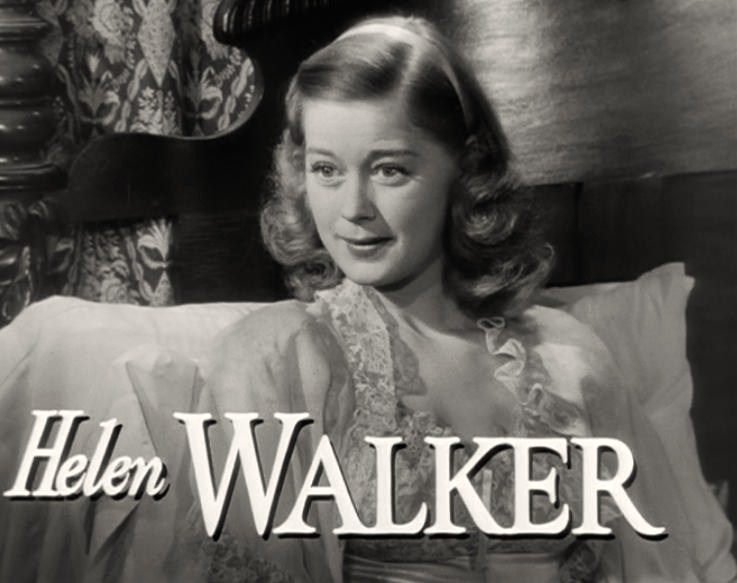 Helen Walker in Cluny Brown - trailer (cropped screenshot)